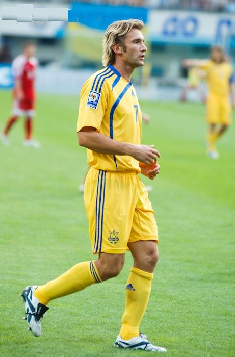 Andriy Shevchenko in Ukraine national football team